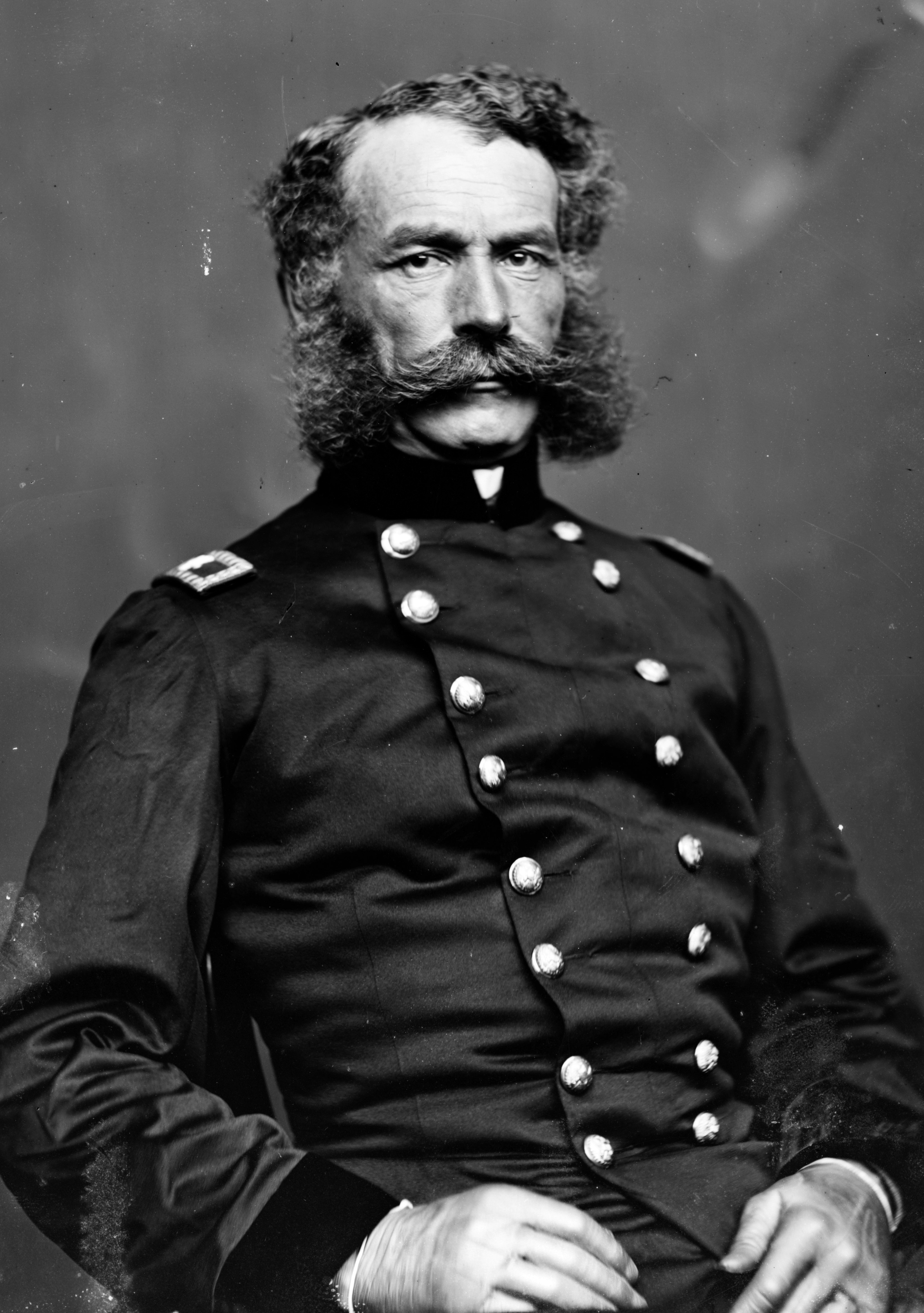 Henry Morris Naglee, Union General, Library of Congress Prints and Photographs Division